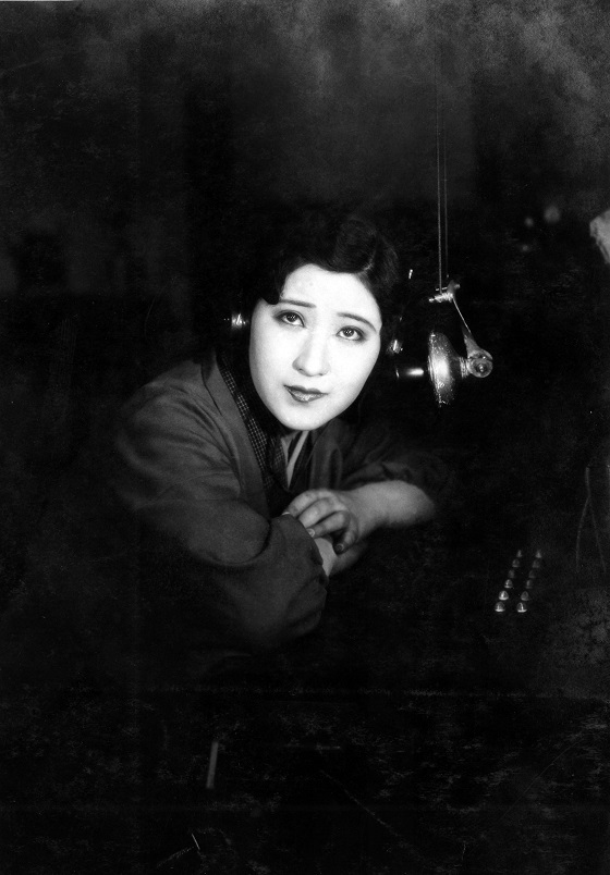 Takako Irie in Ai no fūkei (愛の風景) directed by Tomotaka Tasaka - 1929